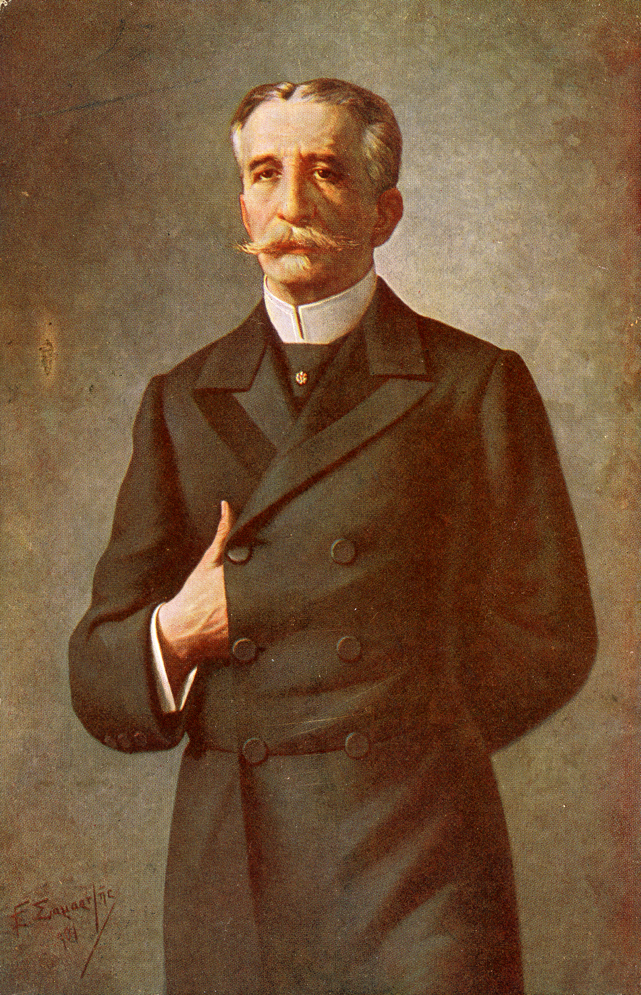 George Theotokis, Prime Minister of Greece. Postcard published by Aspiotis. Reproduction of a painting by Georgios Samartzis.